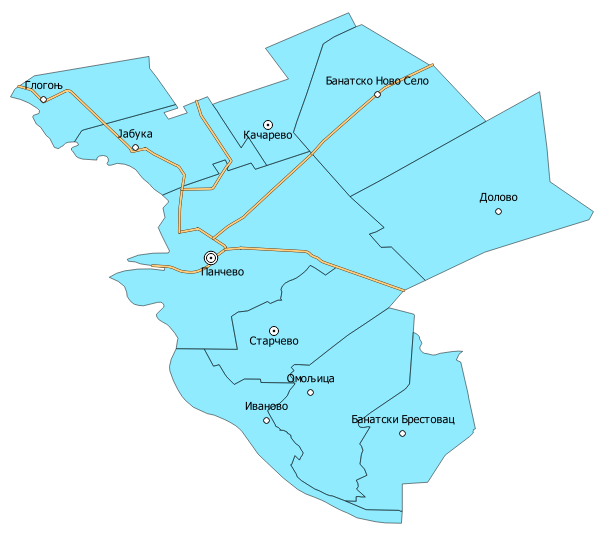 Map of city of Pančevo.Српски (ћирилица): Мапа града Панчева.Srpski (latinica): Mapa grada Pančeva.